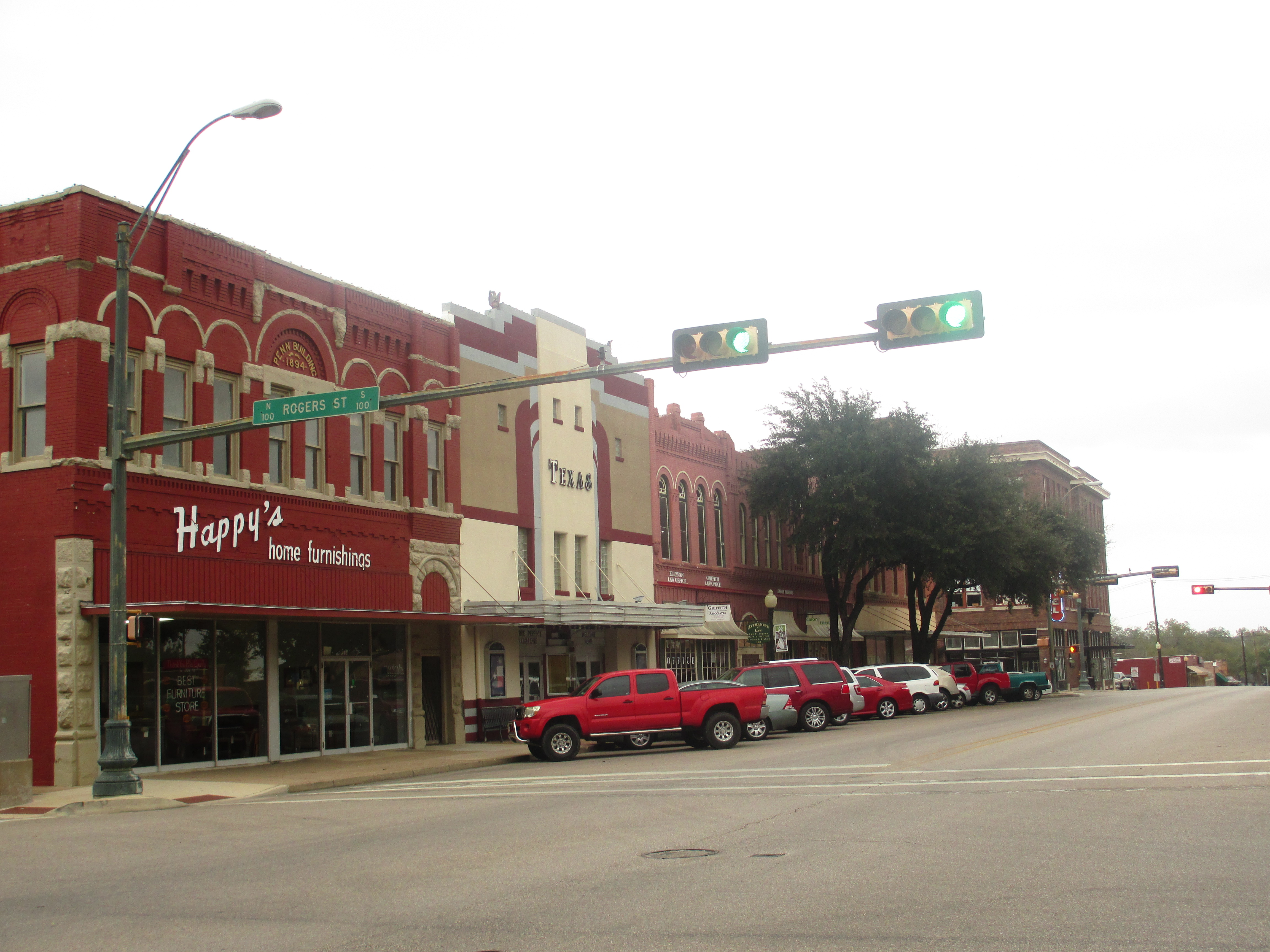 Downtown Waxahachie, TX, across from the courthouse